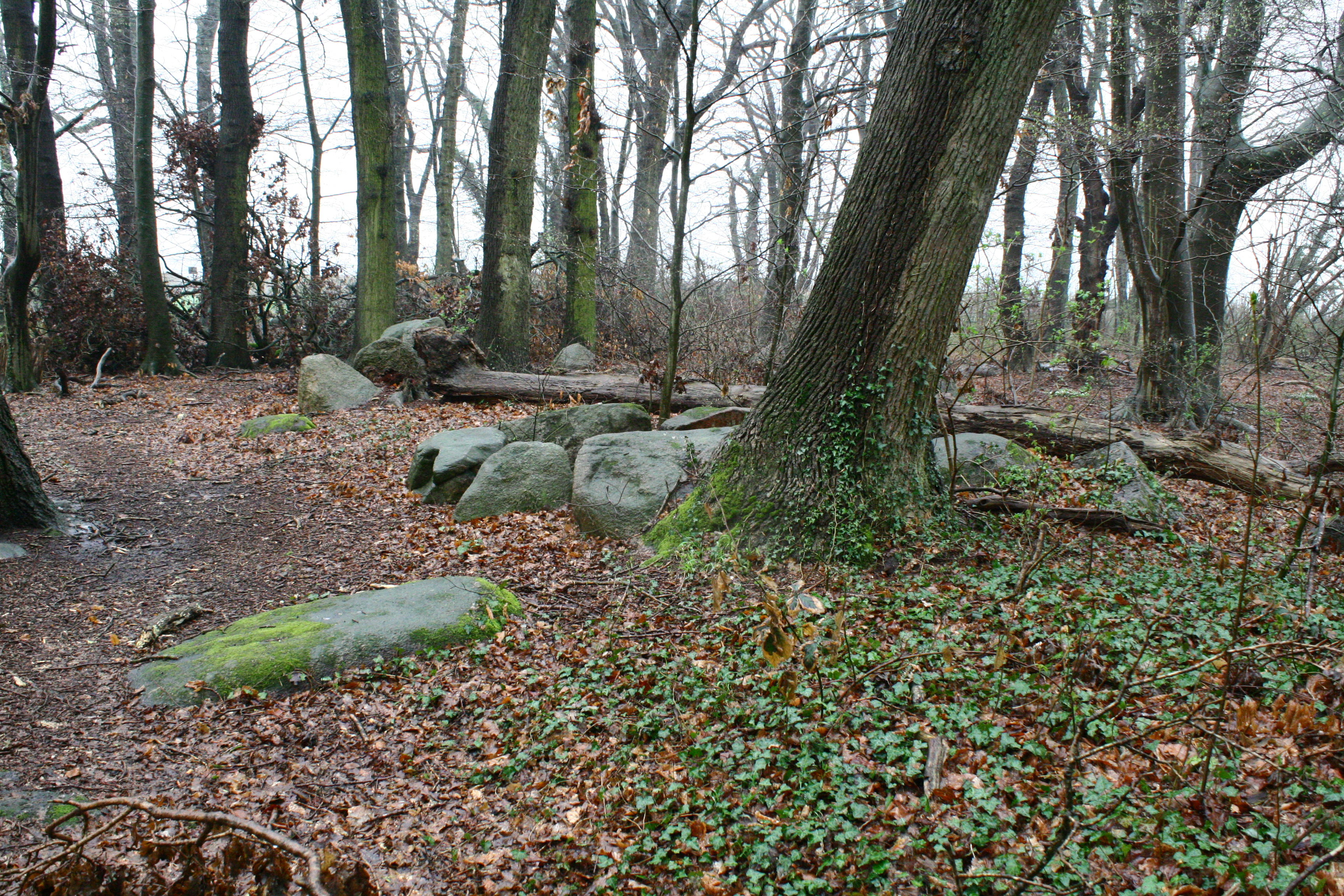 Megalithic tomb Bliedersdorf 3